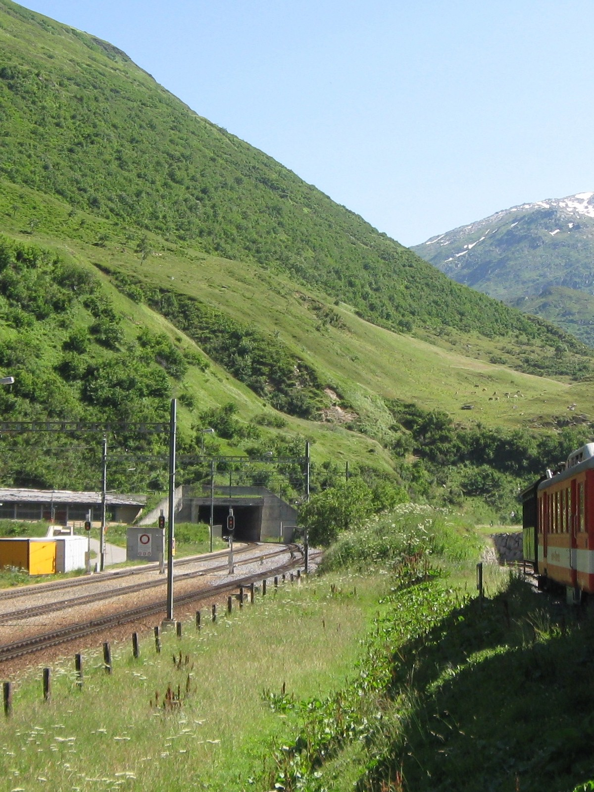 Nordöstliches Portal des Furka-Baistunnels in Realp North-eastern portal of the Furka Base Tunnel in Realp